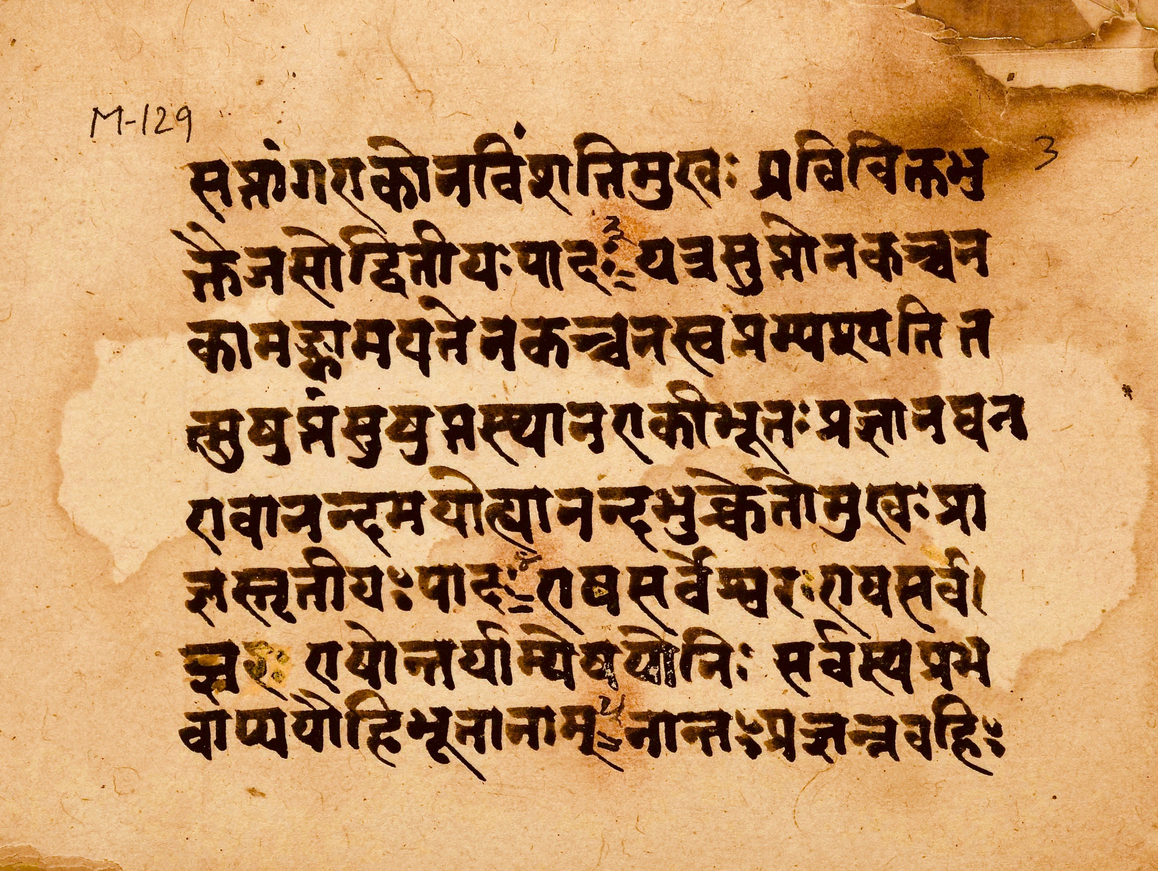 The Gaudapada Karika, also called the Mandukya Karika, has been an influential text for the Vedanta school of Hindu philosophy, particularly its first three chapters have been oft cited in the Advaita tradition such as by Adi Shankara. Parts of the first chapter that include the Mandukya Upanishad have been considered a valid scriptural source by the Dvaita and Vishistadvaita schools of Vedanta. Chapter 4 has a Buddhist flavor, a chapter that has been generally disregarded in the Hindu traditions. The text is generally dated to about the 6th-century CE. These manuscripts are preserved at the Lalchand Research Library, Ancient Indian Manuscript Collection, DAV College Digital Library Initiative, Chandigarh India, in association with SP Lohia and Indorama Charitable Trust. The texts are over 2000 years old, the re-copying into this particular manuscript is dated to a mid-19th-century reproduction. Some sheets of the manuscript show signs of stains, decay and damage on the sides and its edges. Language: Sanskrit Script: Devanagari Script style: pre-14th century (Northern / Western) The photo above is of a 2D artwork of a text that is over 1,200 years old, from a manuscript that was produced decades before 1923. Therefore Wikimedia Commons PD-Art licensing guidelines apply. Any rights I have as a photographer is herewith donated to wikimedia commons under CC 4.0 license.